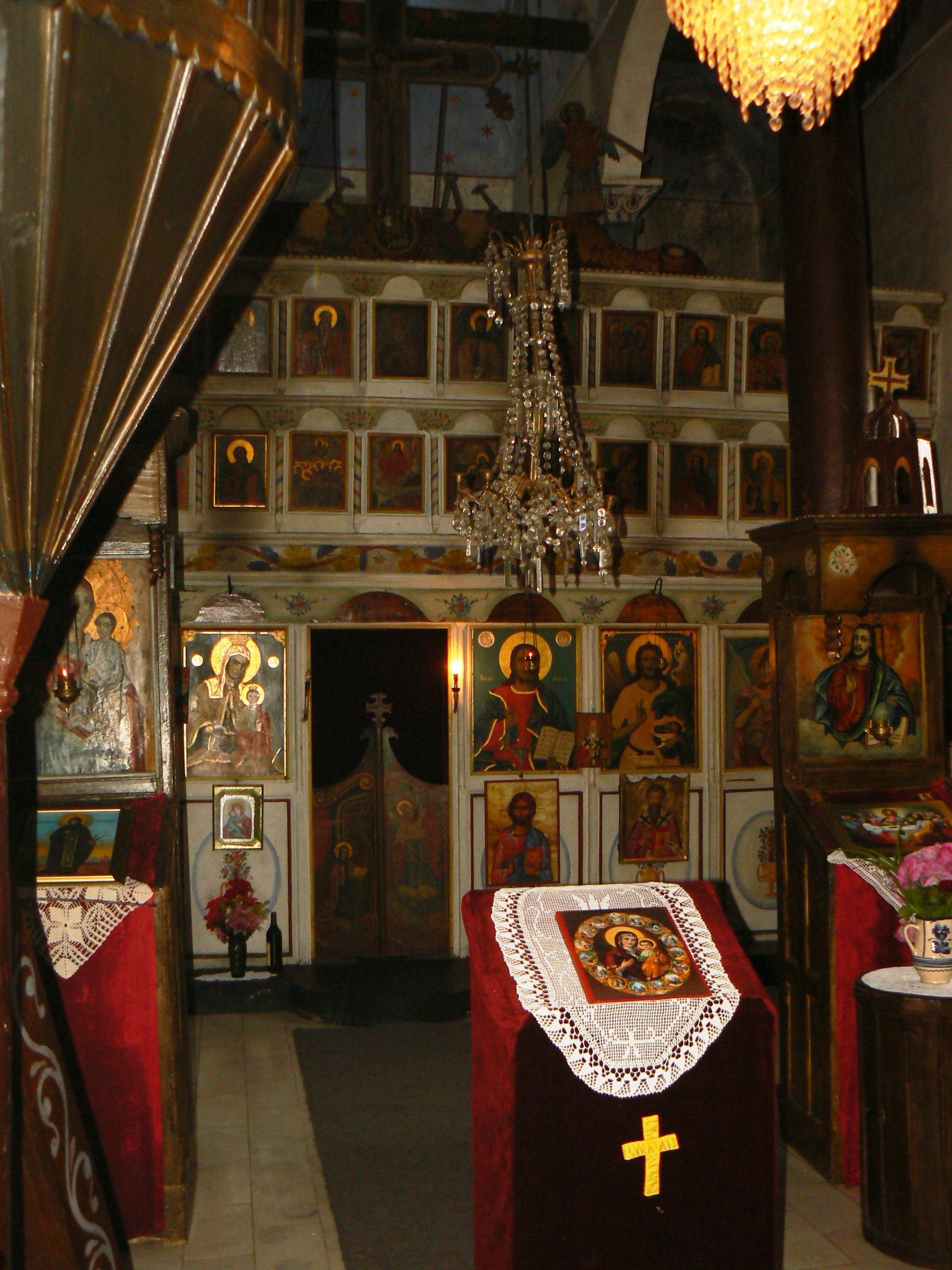 The church of Bosilegrad